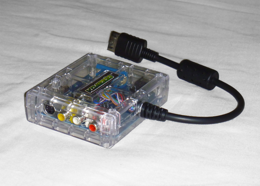 Dreamcast VGA adapter, "Retro-Bit" brand.